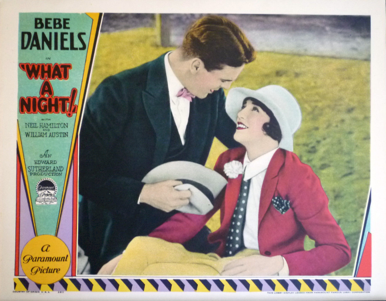 Lobby card for the American romantic comedy film What a Night! (1928). There are no copyright marks on the item. At lower left is Country of origin USA 2811. At lower right is This lobby display leased from Paramount Famous Players Lasky Corporation.